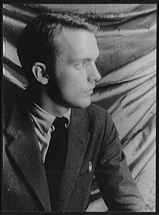 Public domain image from Library of Congress [1] taken by Carl Van Vechten in 1950